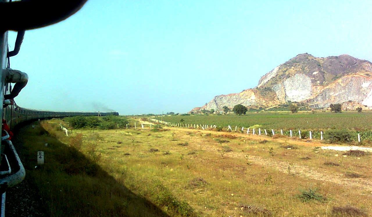 Landscape view at Guntur from Janmabhoomi Express, Andhra Pradesh